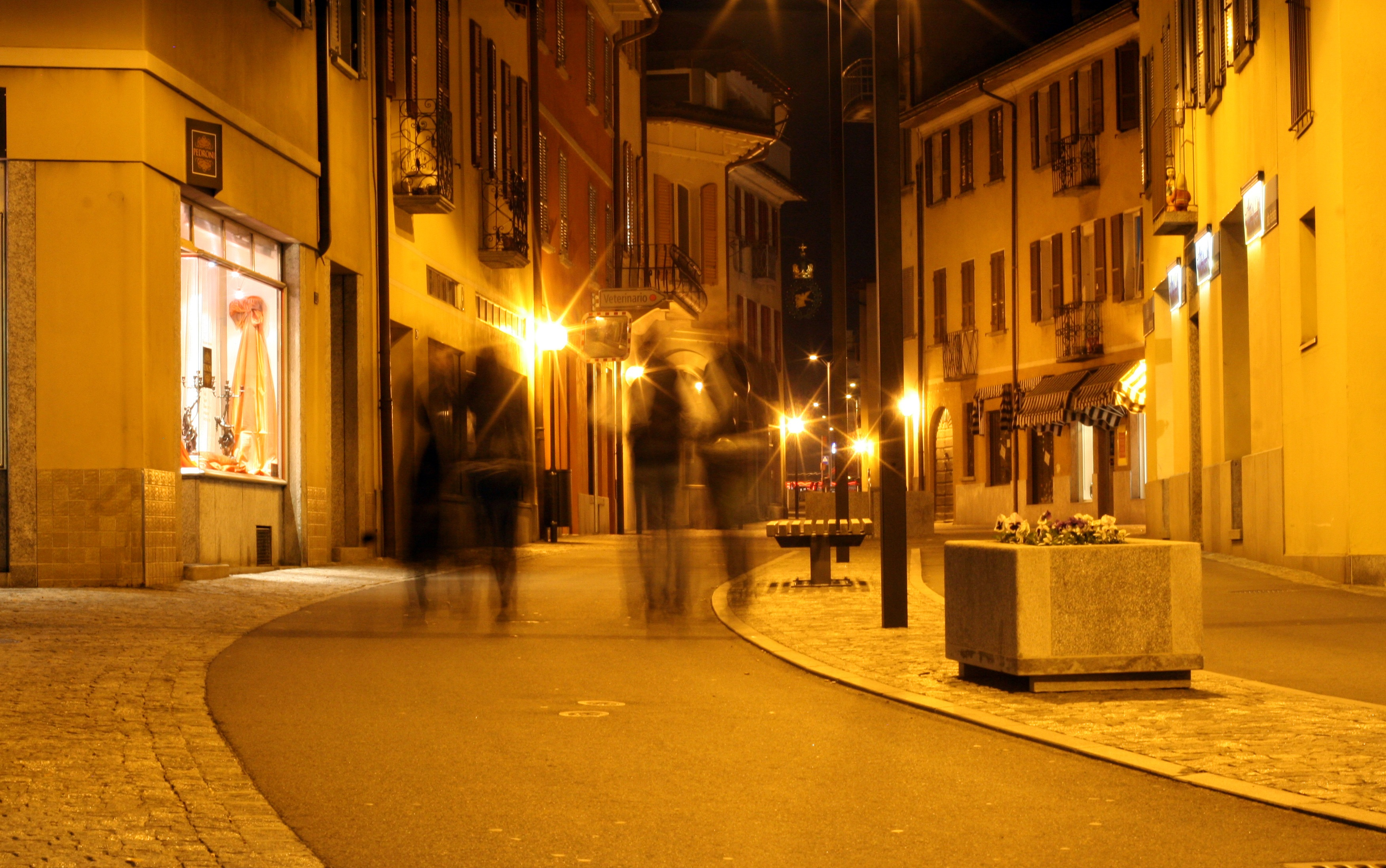 Night shot in Giubiasco, Ticino, Switzerland